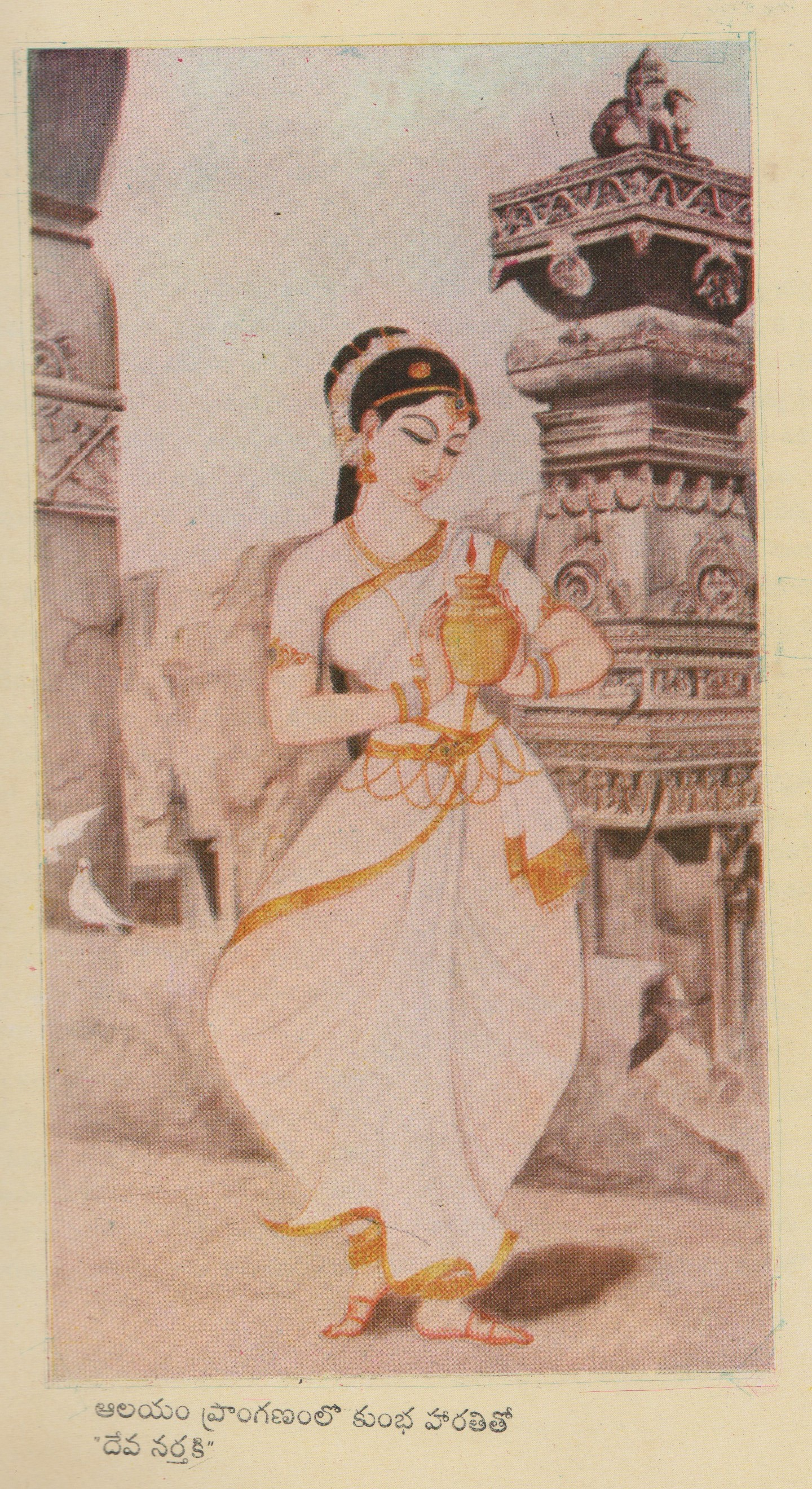 Andhra Natyam depicts a lady holding kumbha harathi to worship God